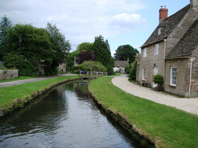 Growing Thames at Ashton Keynes' Church Walk